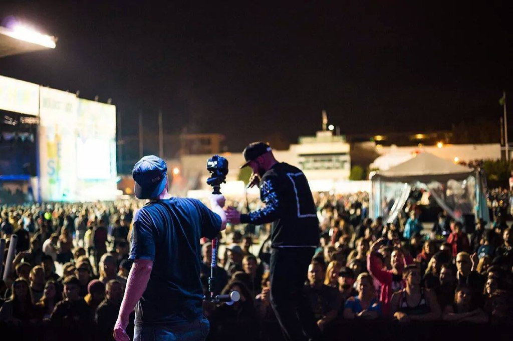 Aaron RF Anderson documents performance by RA Scion of Common Market.